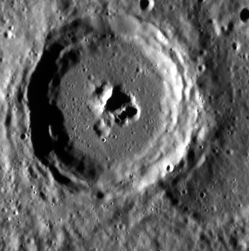 Date acquired: July 31, 2011 Image Mission Elapsed Time (MET): 220635824 Image ID: 575089 Instrument: Narrow Angle Camera (NAC) of the Mercury Dual Imaging System (MDIS) Center Latitude: -28.30° Center Longitude: 146.9° E Resolution: 139 meters/pixel Scale: Pahinui crater is 54 km (34 mi.) in diameter Incidence Angle: 77.3° Emission Angle: 22.5° Phase Angle: 99.9° Of Interest: One of nine newly named craters, Pahinui crater has intriguing pits surrounding its central peak. Pahinui crater is named for the Hawaiian musician Gabby Pahinui, a key figure in the 1970s Hawaiian Renaissance and master of the slack-key guitar, a style that originated in Hawaii. This image was acquired as part of MDIS's high-resolution surface morphology base map. The surface morphology base map covers more than 99% of Mercury's surface with an average resolution of 200 meters/pixel. Images acquired for the surface morphology base map typically are obtained at off-vertical Sun angles (i.e., high incidence angles) and have visible shadows so as to reveal clearly the topographic form of geologic features.